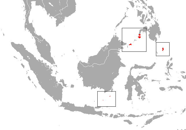 Philippine Gray Flying Fox (Pteropus speciosus) range